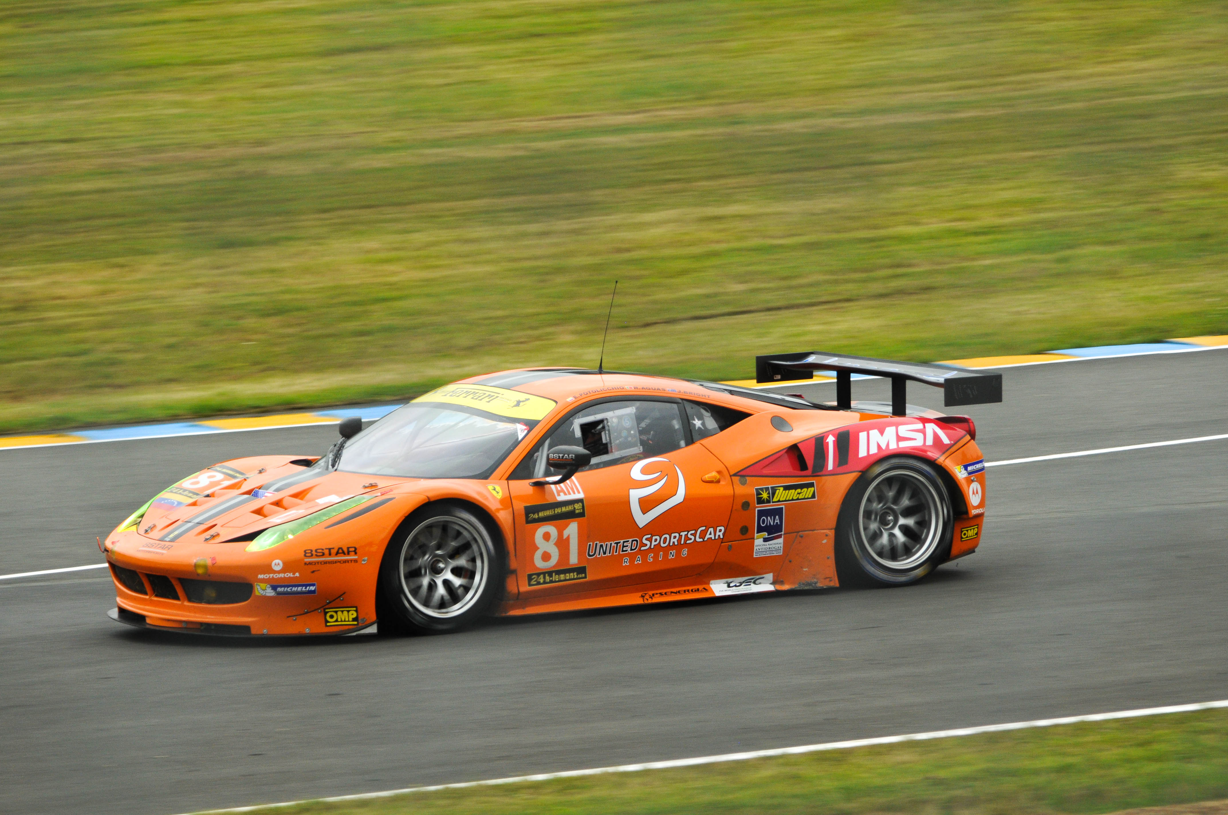 Le Mans 2013 (155 of 631)